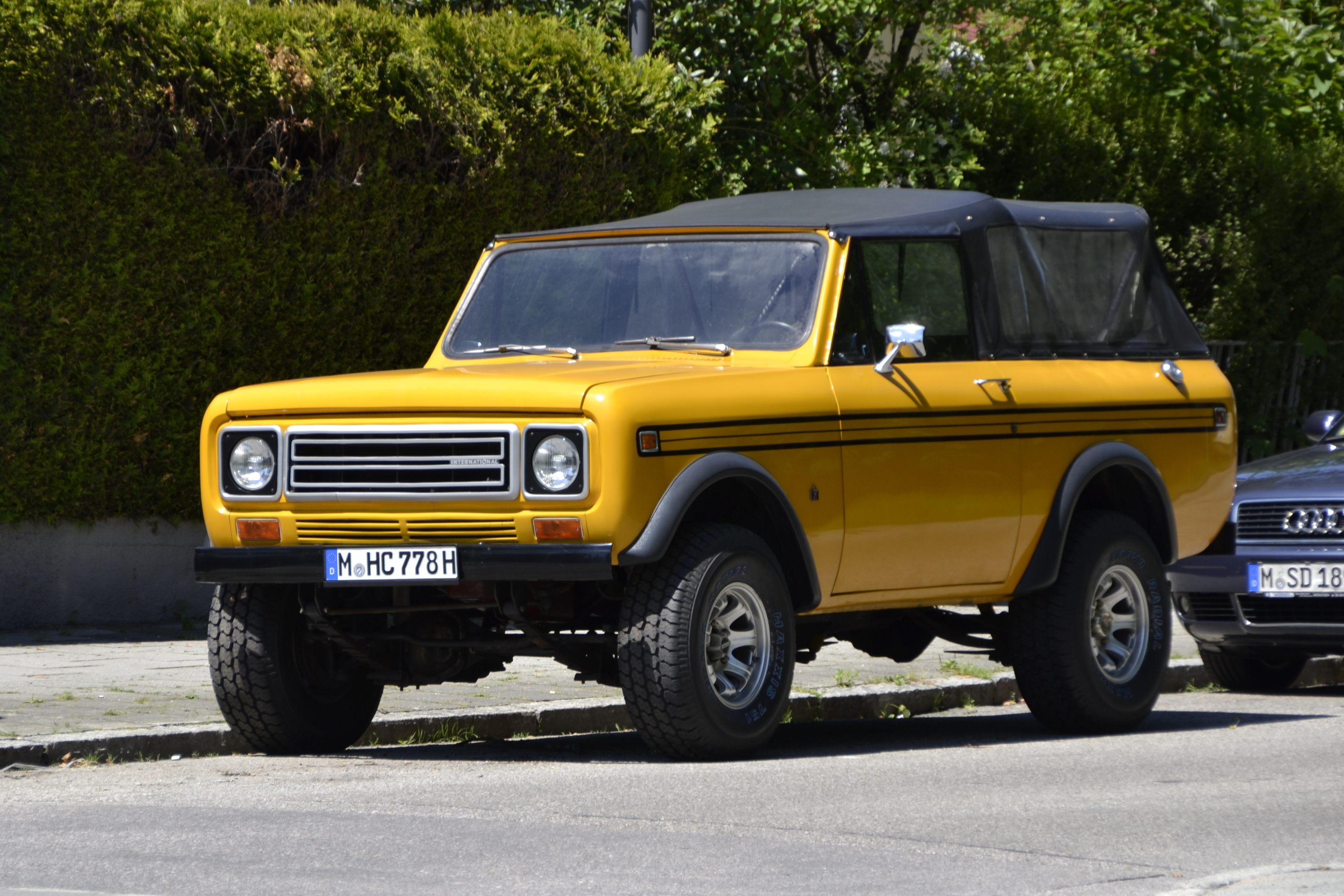 An 1979 International Harvester Scout II off-road vehicle in Munich.